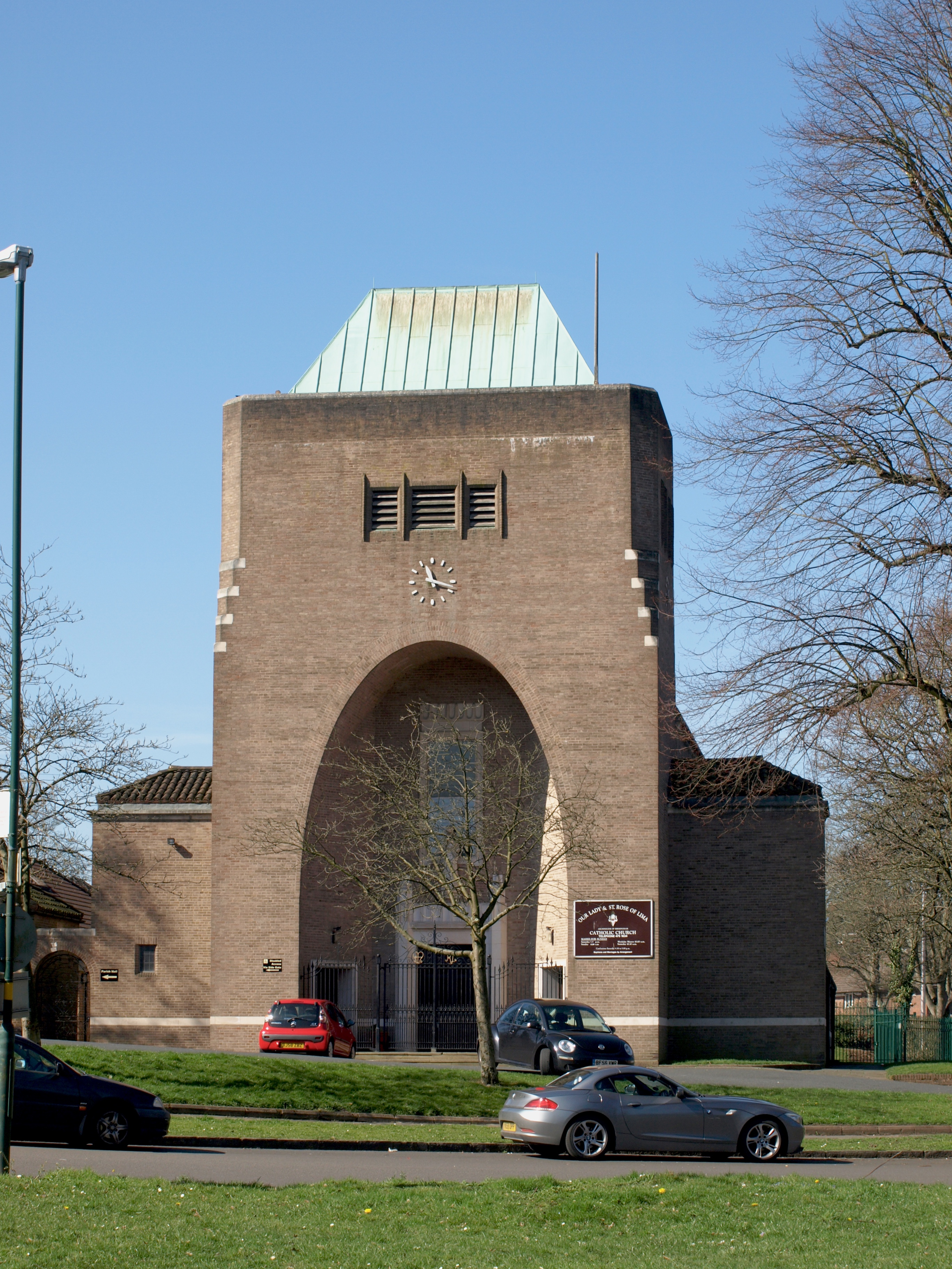 Church of Our Lady and St Rose of Lima, Weoley Hill by Adrian Gilbert Scott